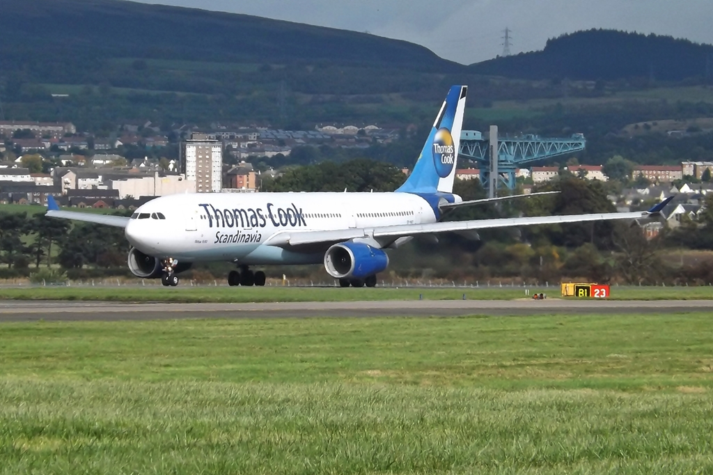 OY-VKF A330 Thomas Cook Scandinavia